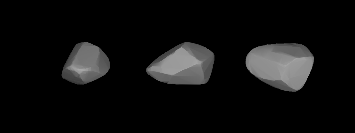 A three-dimensional model of 807 Ceraskia that was computed using light curve inversion techniques.